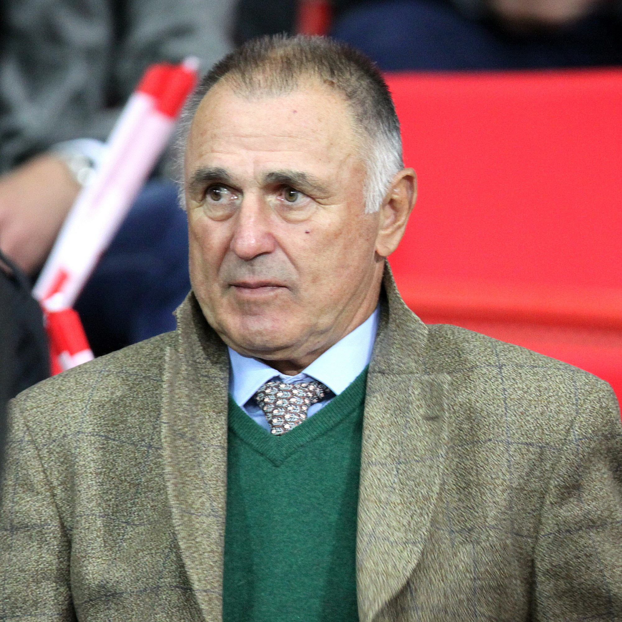 UEFA Euro 2016 qualifying, Group G – Austria national football team (red shirts) vs. Moldova national football team (blue shirts) on 2015-09-05 in Ernst-Happel-Stadion, Vienna: The photo shows spectator August Starek (former football-player and -coach)